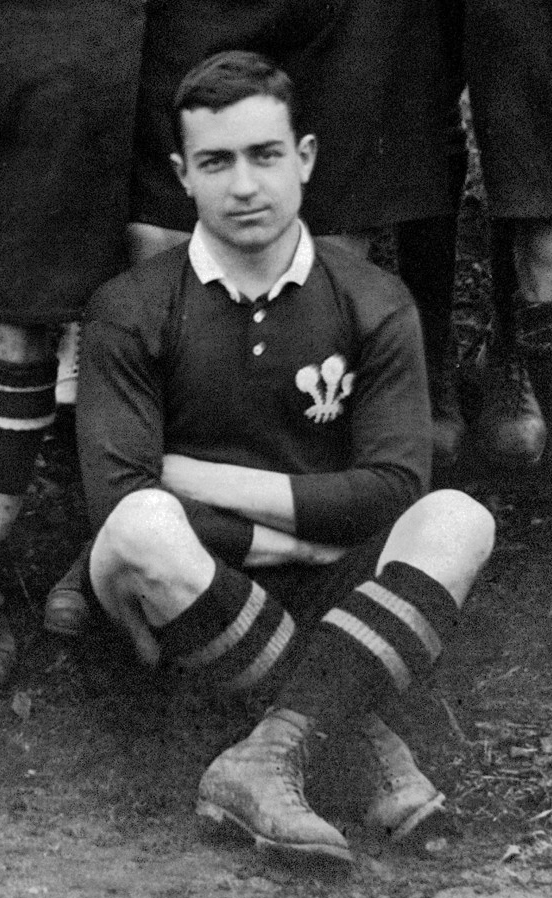 Lou Phillips. England 3 : Wales 13 at Kingshom Ground